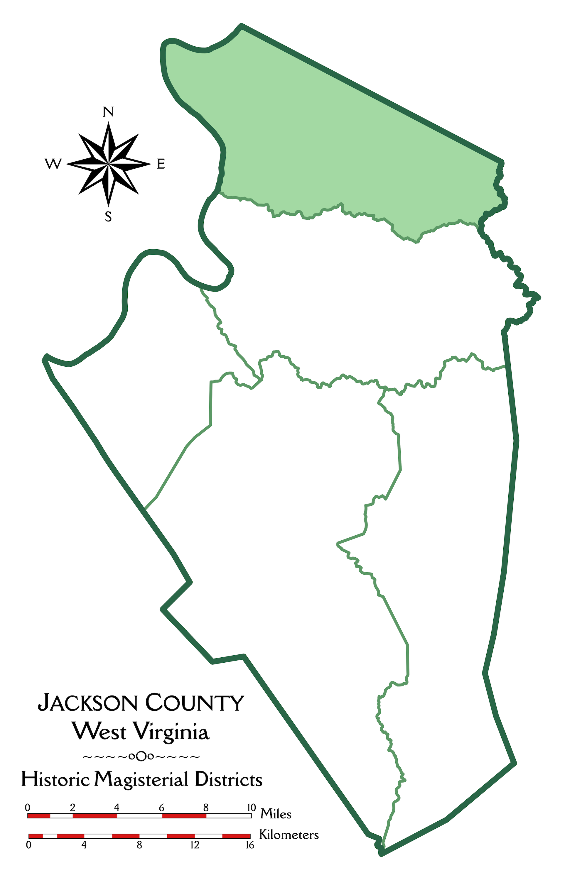 Outline map of Jackson County, West Virginia, showing the boundaries of the historic magisterial districts. Grant District is shaded.